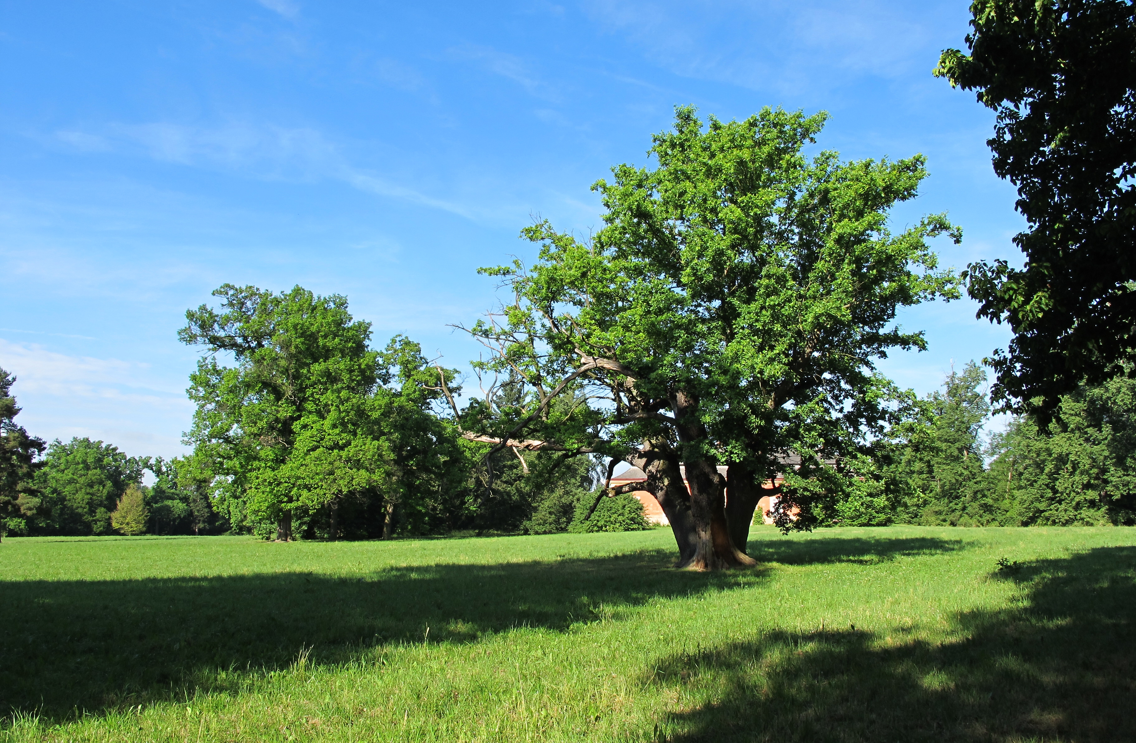 Dobříšský park is a park near Dobříš chateau, Příbram District